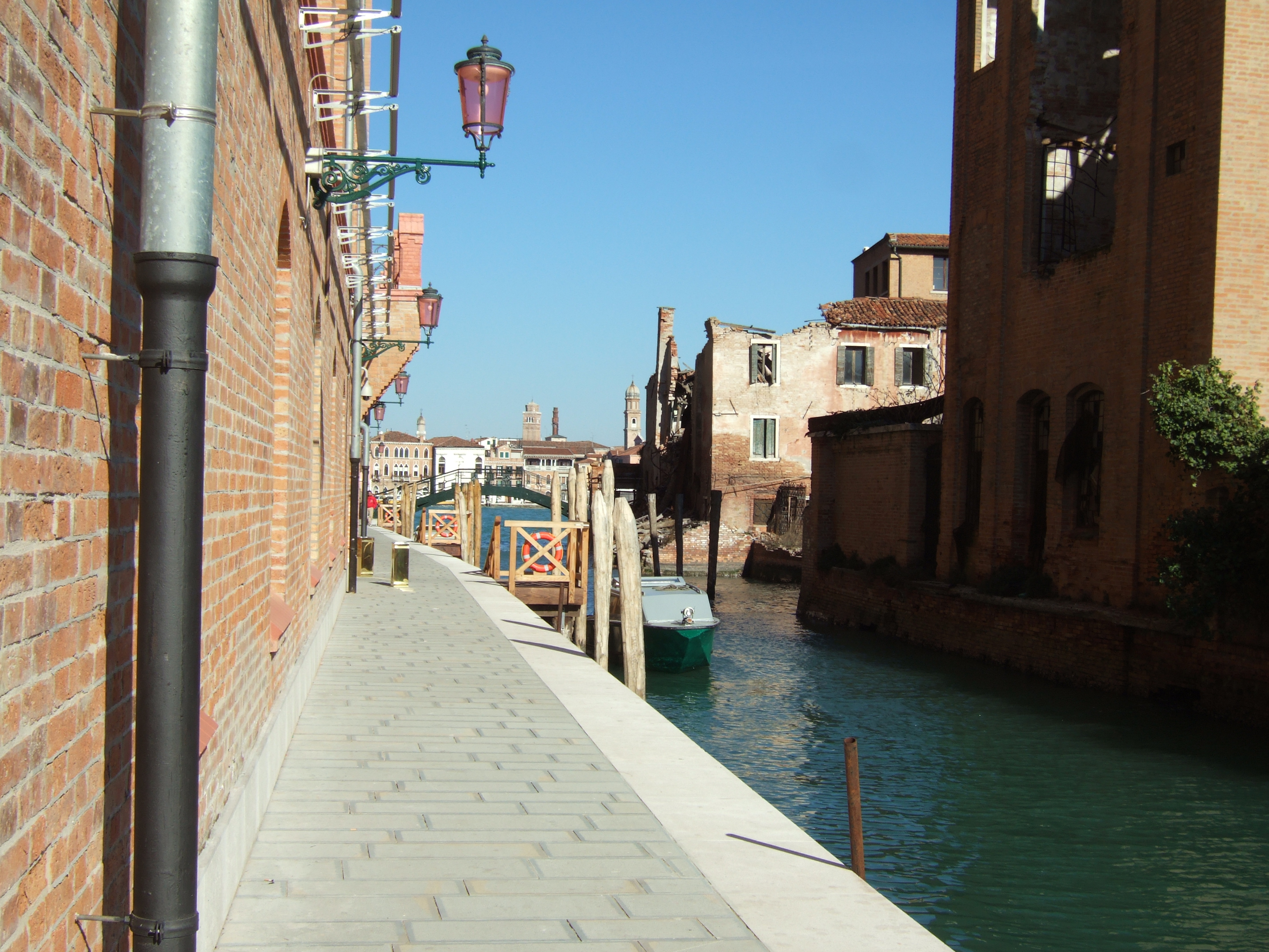 Rio di San Biagio (Giudecca (Dorsoduro) Venice); Molino Stucky at the left